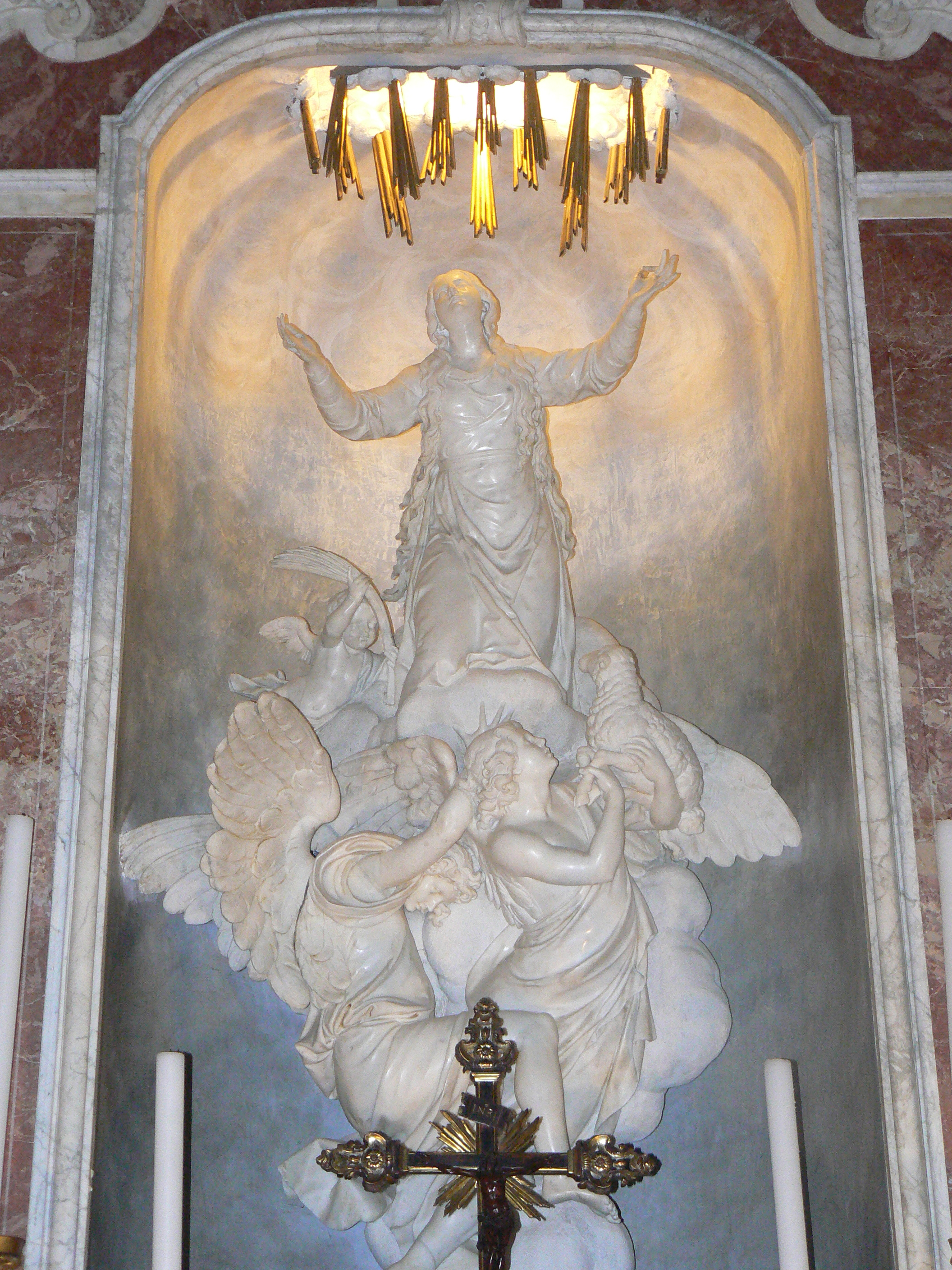 Sculpted on 1791 for the Parish Church of St. Agnese in Genova, the sculpture was translated in N.S. del Carmine at the beginning of XIX century, place where today we can see this masterpiece.